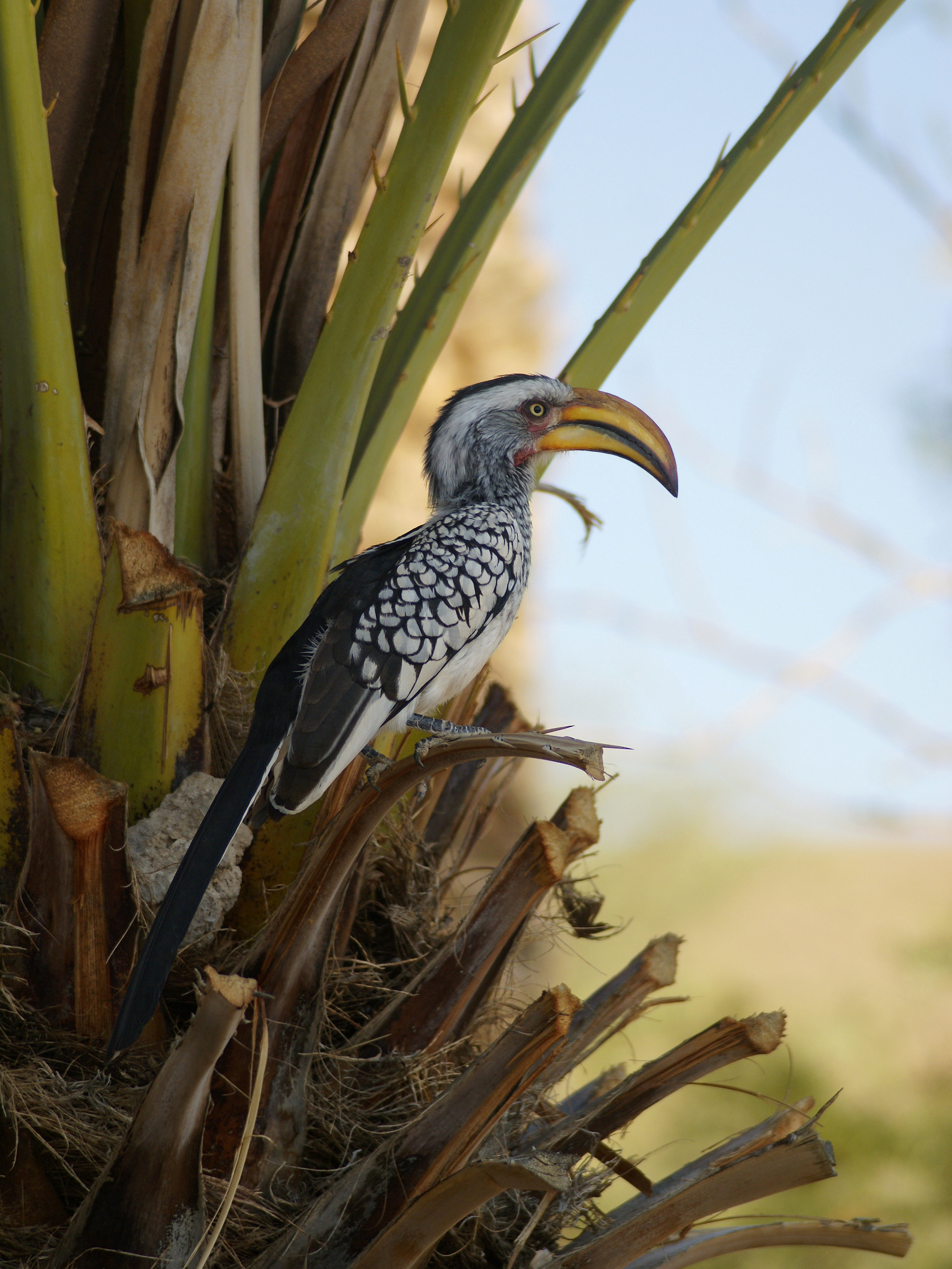 A male Southern yellow-billed hornbill of the nominate race at Sesfontein in the Kunene Region of NamibiaNote: Race T. l. elegans also occurs in the Kunene Region, but the colour of the crown and lower mandible distinguishes this individual as belonging to nominate race. It is perched in a date palm, an exotic in the region.